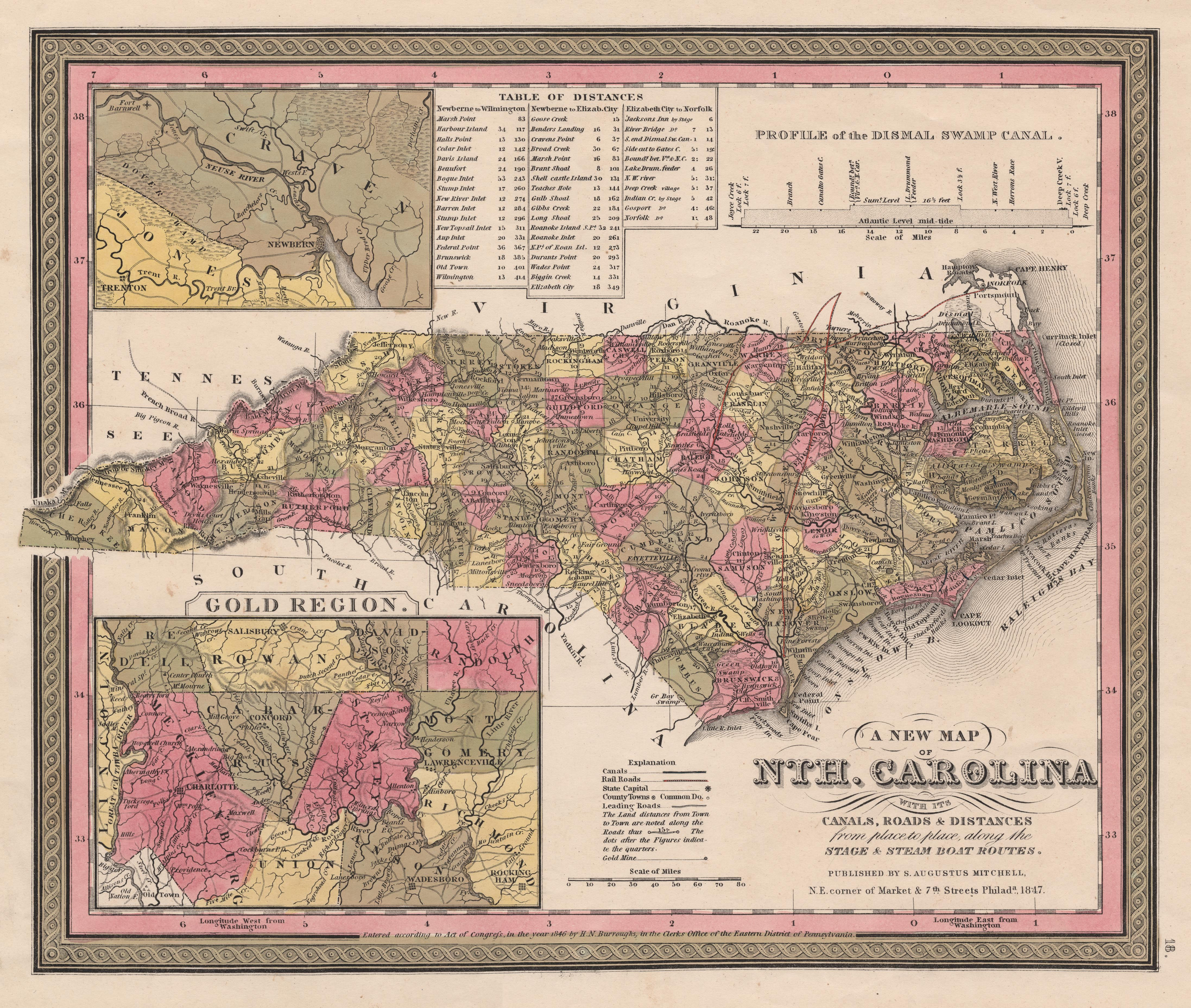 Map of the state of North Carolina showing the gold region of the state, 1847. Image courtesy of .